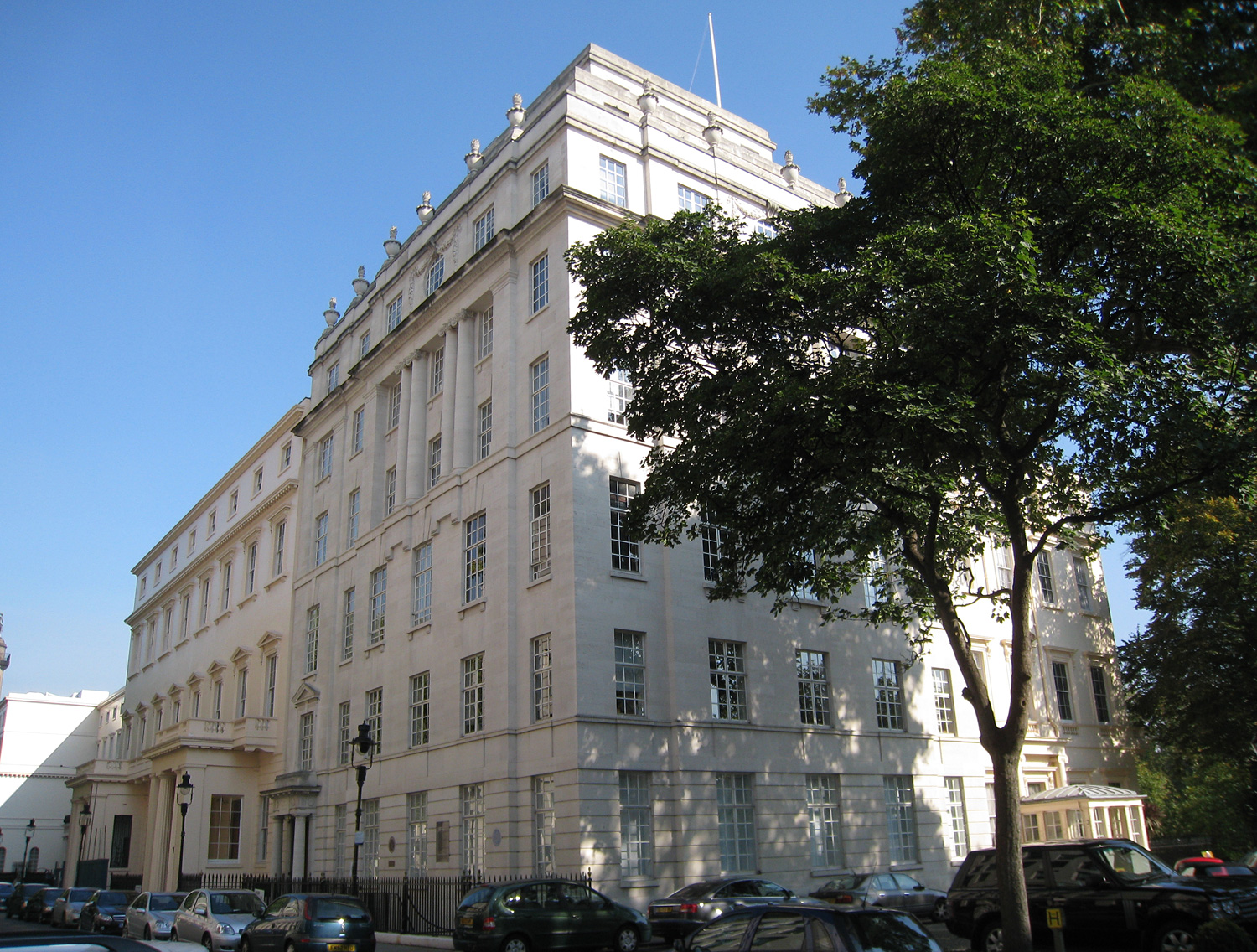 4 Carlton Gardens, London - headquarters of General Charles de Gaulle during World War II.